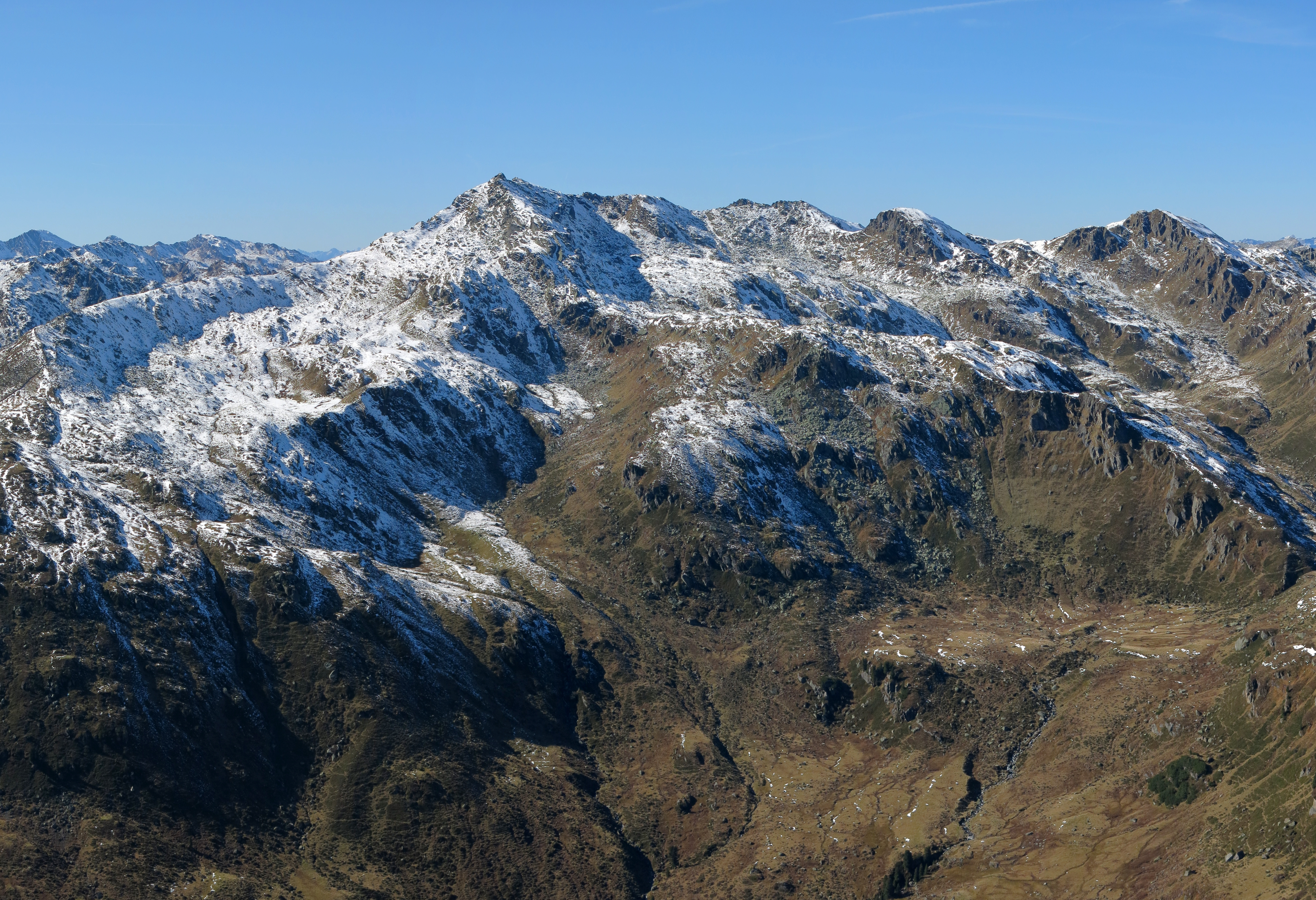 Salzachgeier in the Kitzbühel Alps, seen from east (Tristkopf)